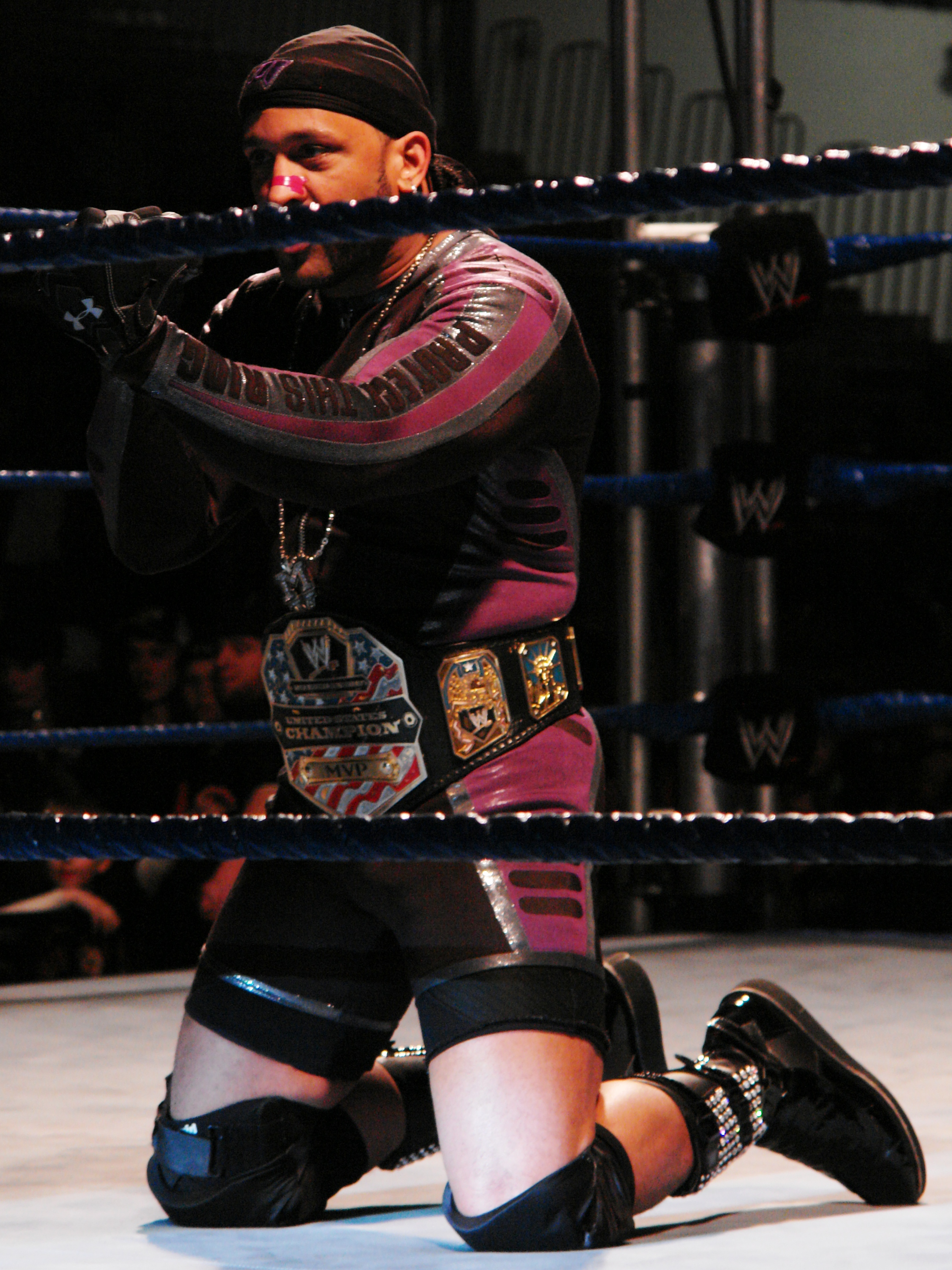 MVP at a SmackDown/ECW! live event. Oshkosh, WI. Taken by me.